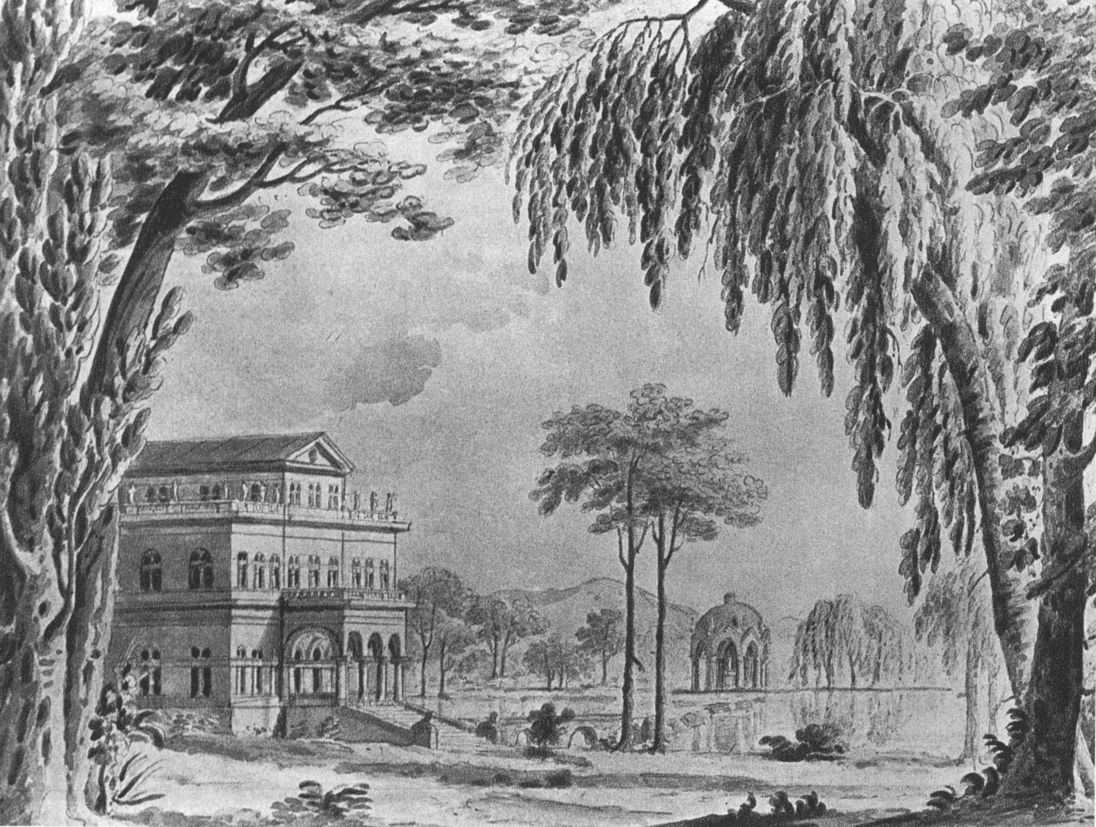 Rossini - La Cenerentola - 1. acte 3. scene - watercolor stage design draft by Alessandro Sanquirico - Scala - Mailand 1817